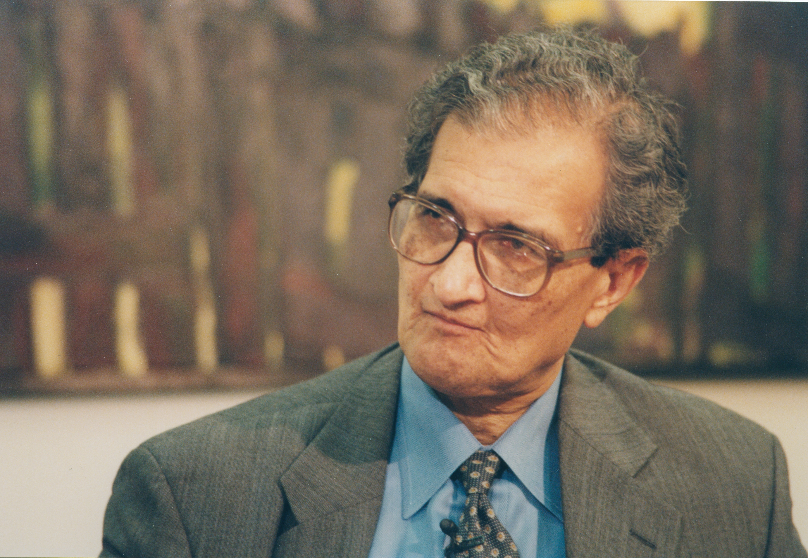 Professor of Economics 1971-1977, Nobel Prize winner in Economic Sciences in 1998 IMAGELIBRARY/1143 Persistent URL